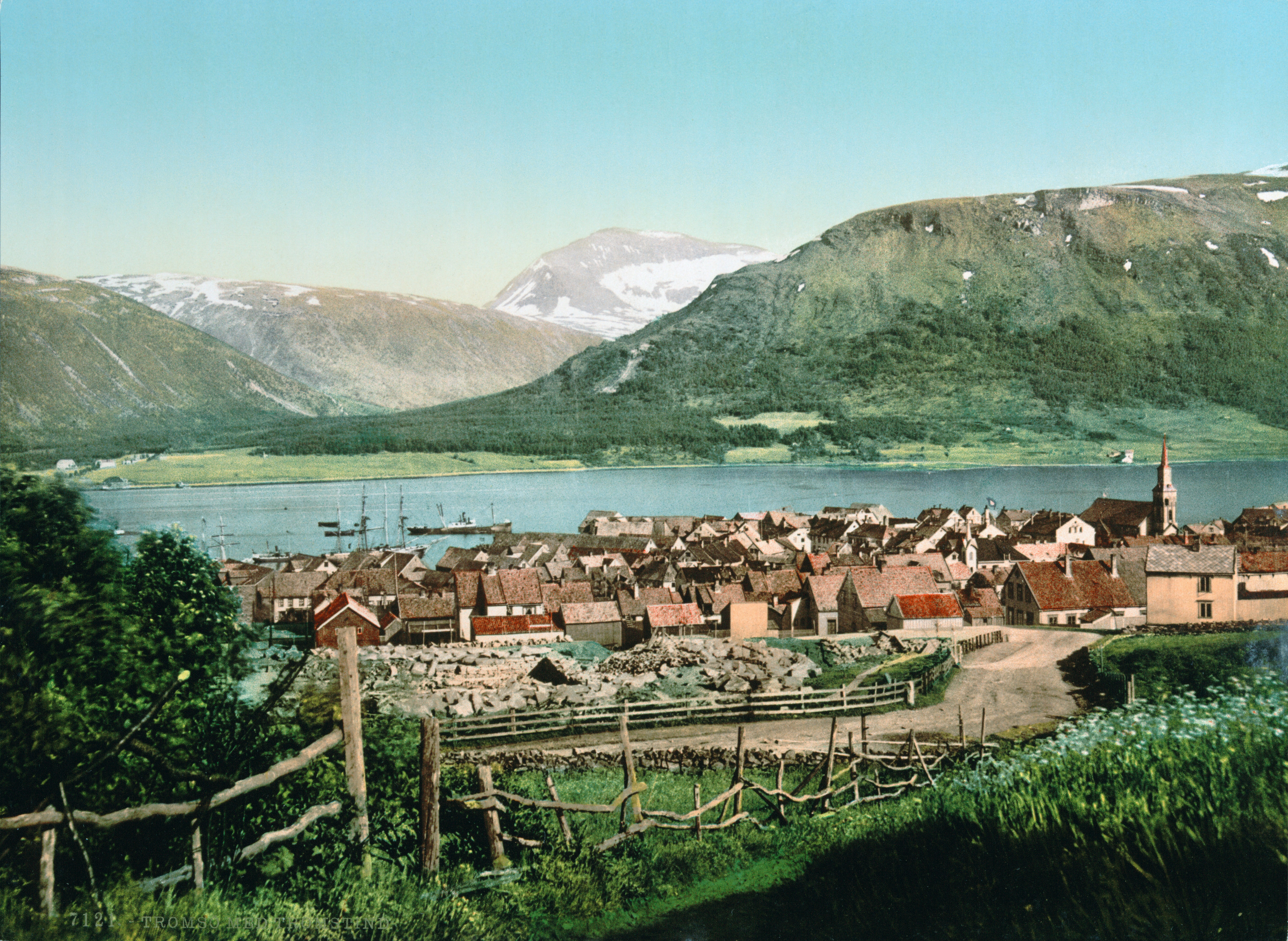 [Tromsø, with Tromstind, Troms, Norway] [between ca. 1890 and ca. 1900]. 1 photomechanical print : photochrom, color. Notes: Title from the Detroit Publishing Co., Catalogue J--foreign section. Detroit, Mich. : Detroit Publishing Company, 1905. Print no. 7121. Forms part of: Landscape and marine views of Norway in the Photochrom print collection. Subjects: Norway--Troms². Format: Photochrom prints--Color--1890-1900. Repository: Library of Congress, Prints and Photographs Division, Washington, D.C. 20540 USA, Part Of: Landscape and marine views of Norway (DLC) 2001699563 More information about the Photochrom Print Collection is available at Persistent URL: Call Number: LOT 13432, no. 146 [item]